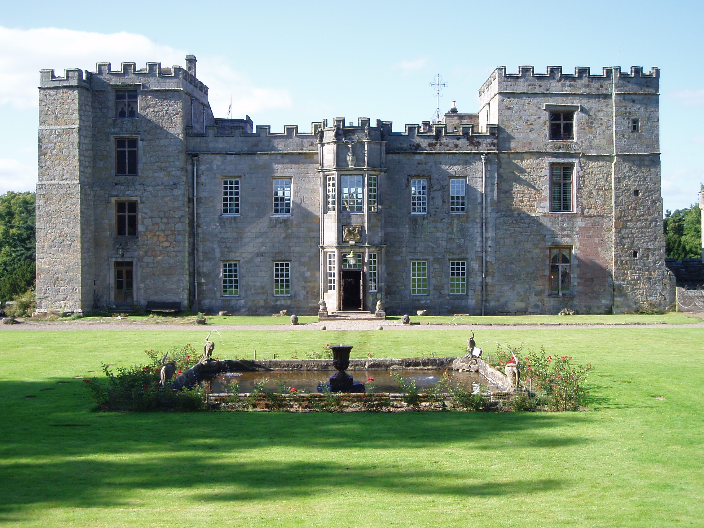 Chillingham Castle